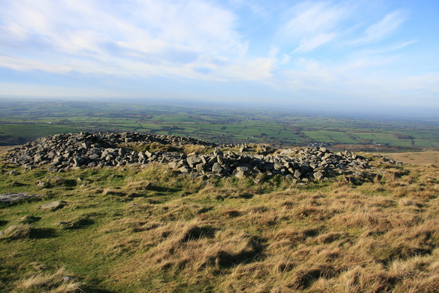 Cairn on Yes Tor A large much excavated cairn to the north-west of Yes Tor summit.